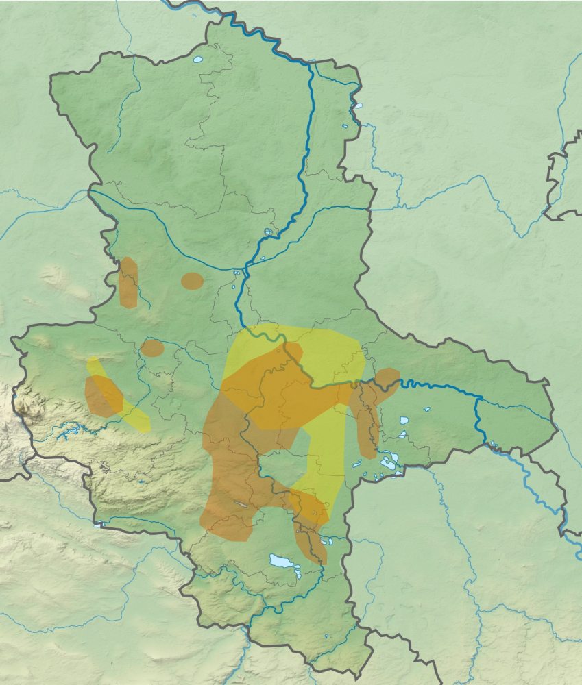 Distribution area of the Saale Mouth group in Saxony-Anhalt. Yellow: early and middle stage; orange: late stage